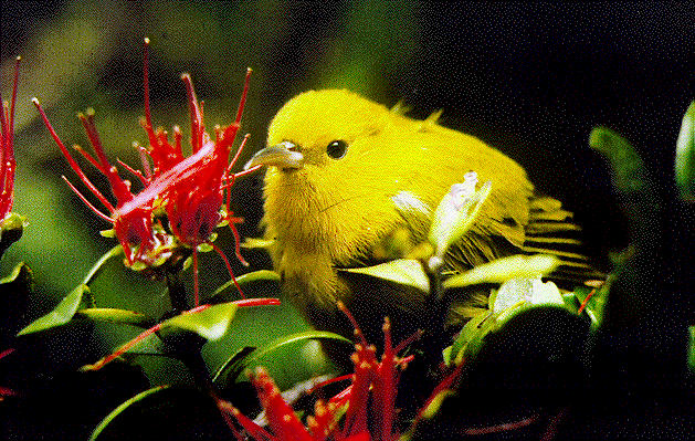 An ʻAnianiau (Hemignathus parvus Syn. Magumma parva) in the Alakai Wilderness Preserve, Kauai Author: United States Geological Survey Pacific Island Ecosystems Research Center Source: downloaded from Upload date: 2008-02-14